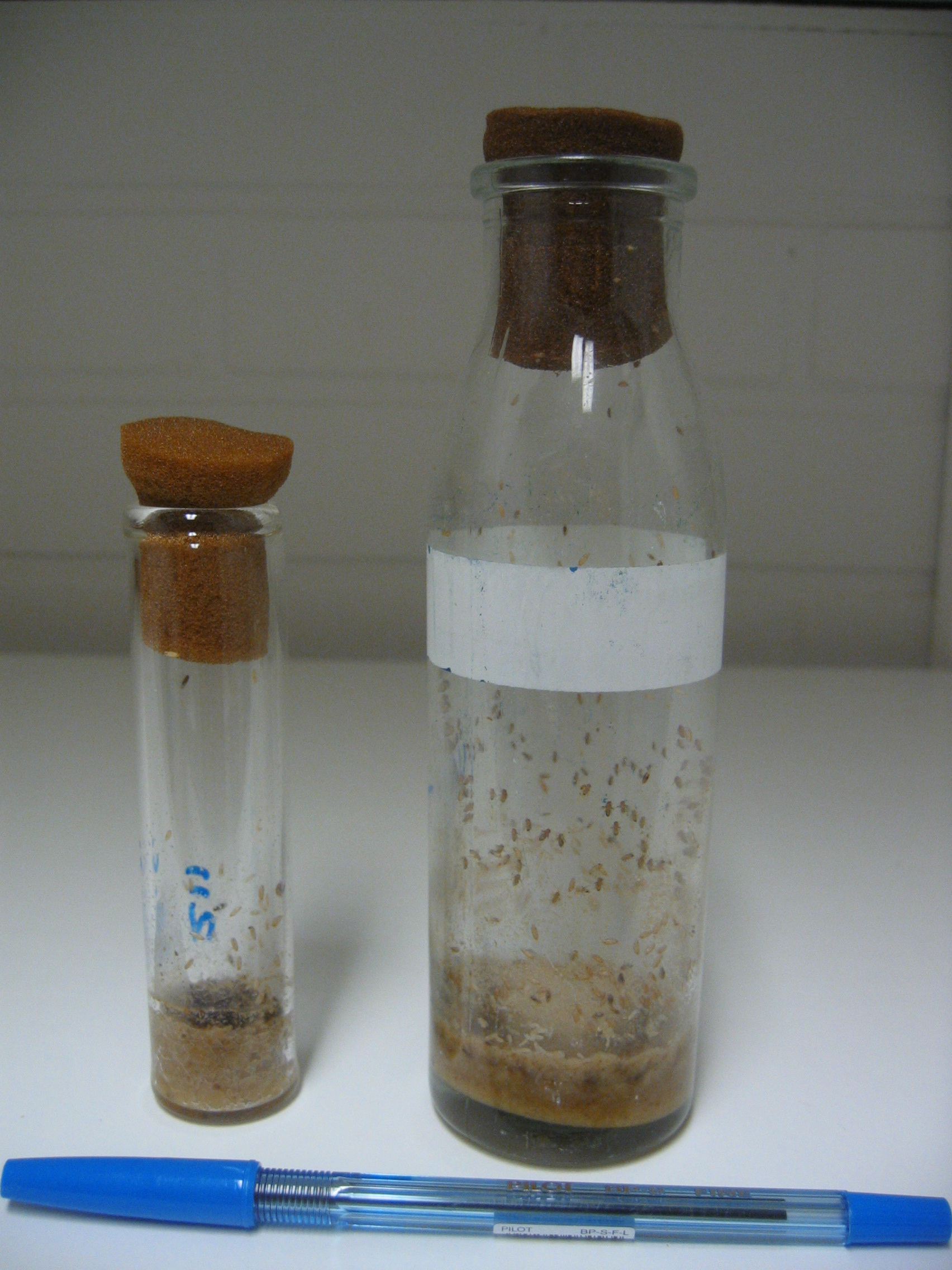 Drosophila melanogaster culture vials used in the laboratory. The smaller vial on the left is used for crossings and the larger one on the right is used for keeping stocks